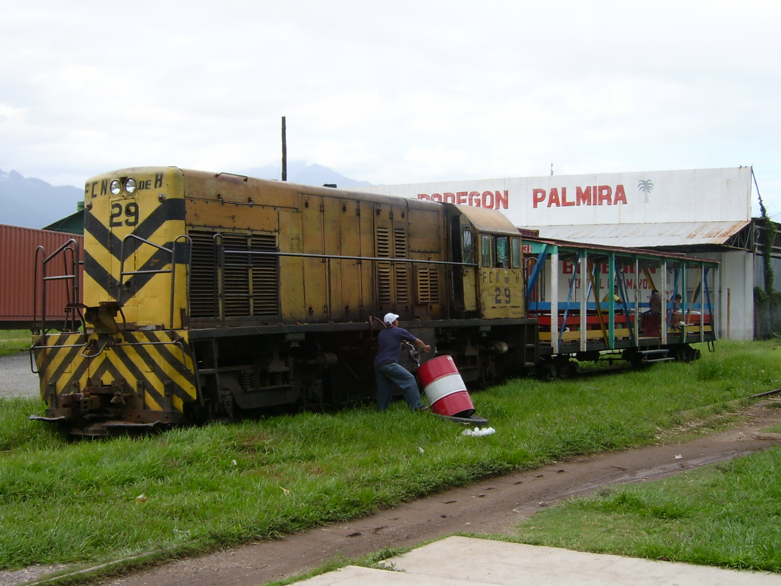 Passenger train of FNH in La Ceiba, Honduras. It operates on an isolated line between downtown and a western suburb, Col. Sitramacsa.